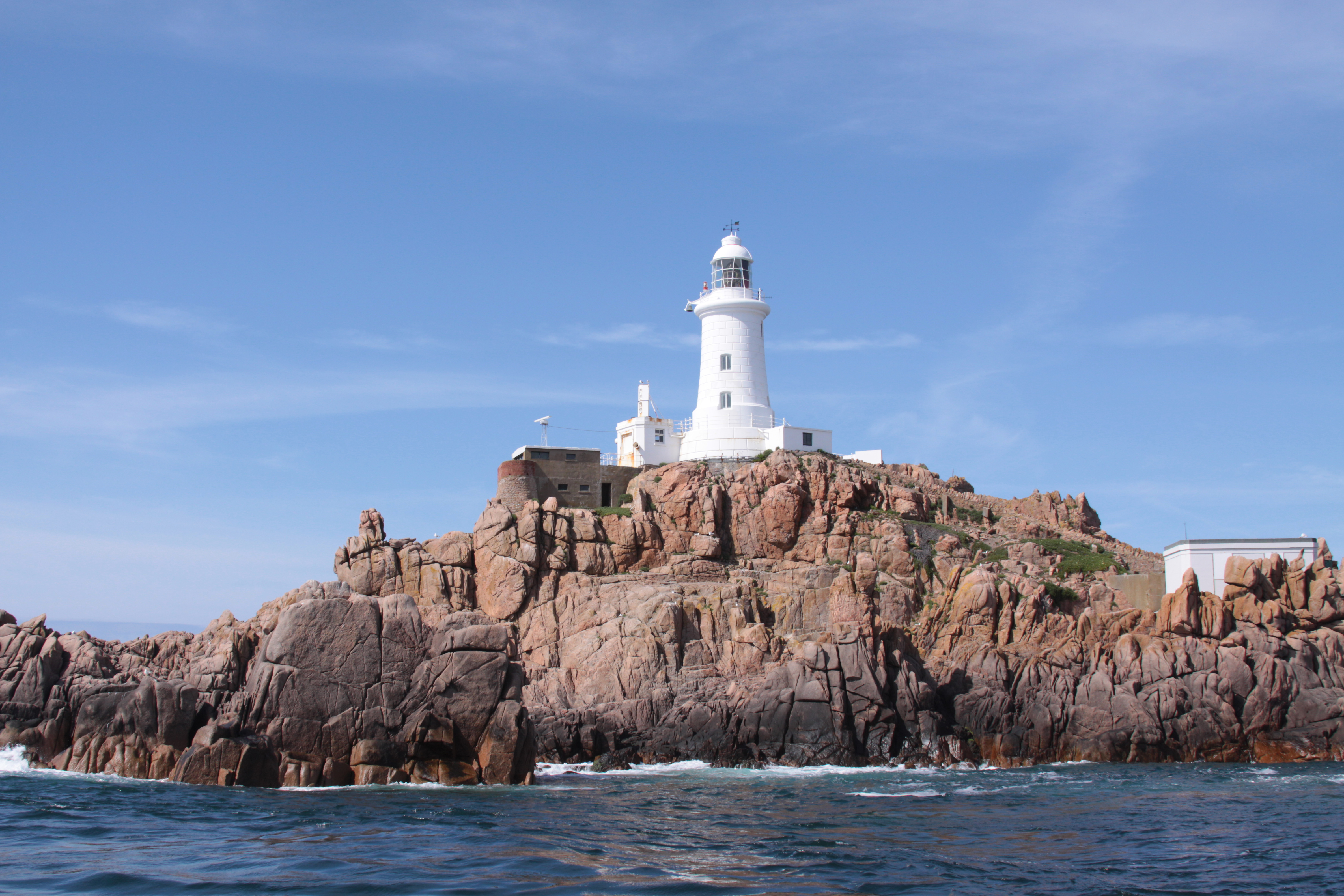 La Corbiére Lighthouse.